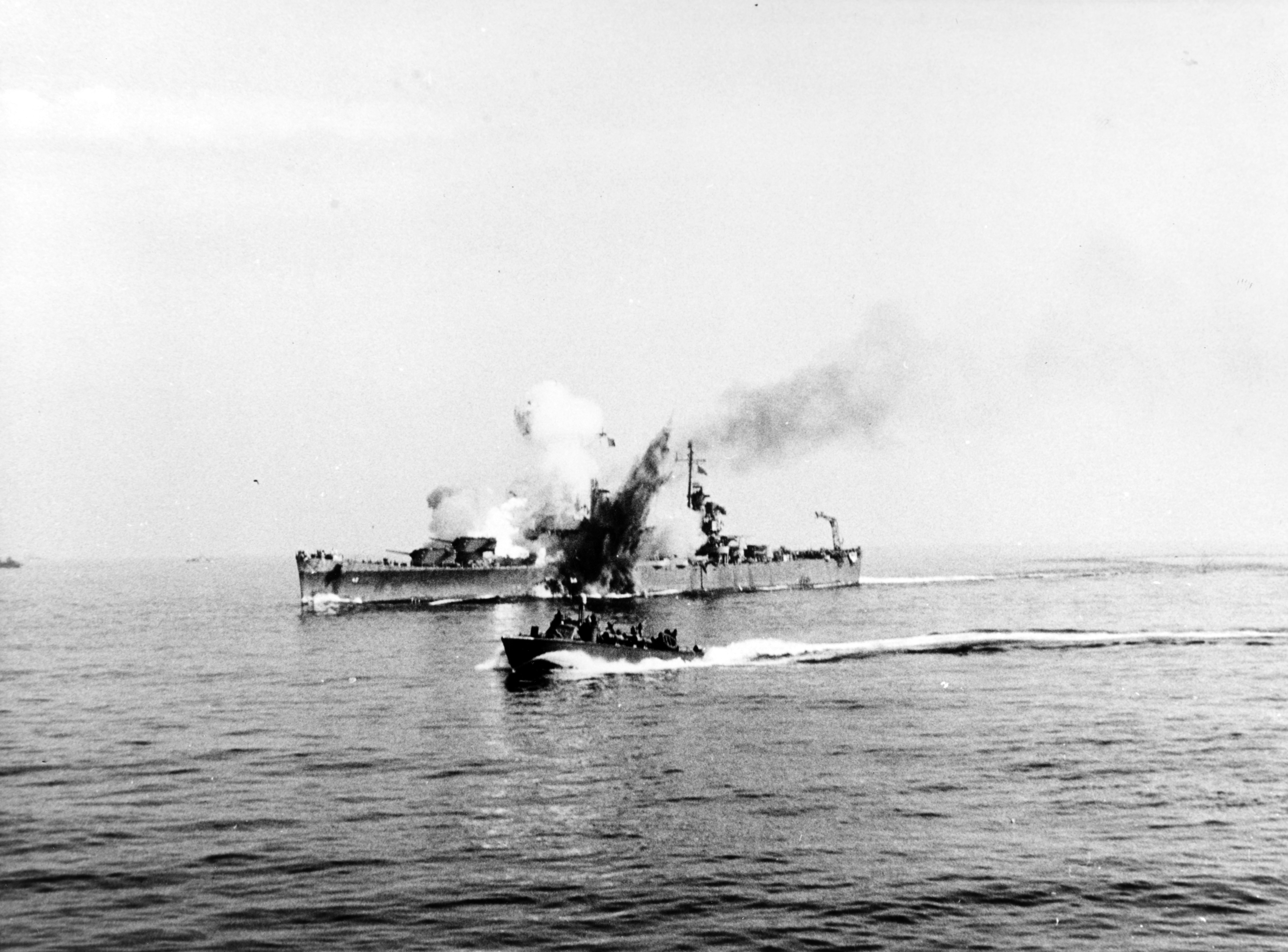 USS Savannah (CL-42) is hit by a German radio-controlled glide bomb, while supporting Allied forces ashore during the Salerno operation, 11 September 1943. The bomb hit the top of the ship's number three 6"/47 gun turret and penetrated deep into her hull before exploding. The photograph shows the explosion venting through the top of the turret and also through Savannah's hull below the waterline. A motor torpedo boat (PT) is passing by in the foreground.